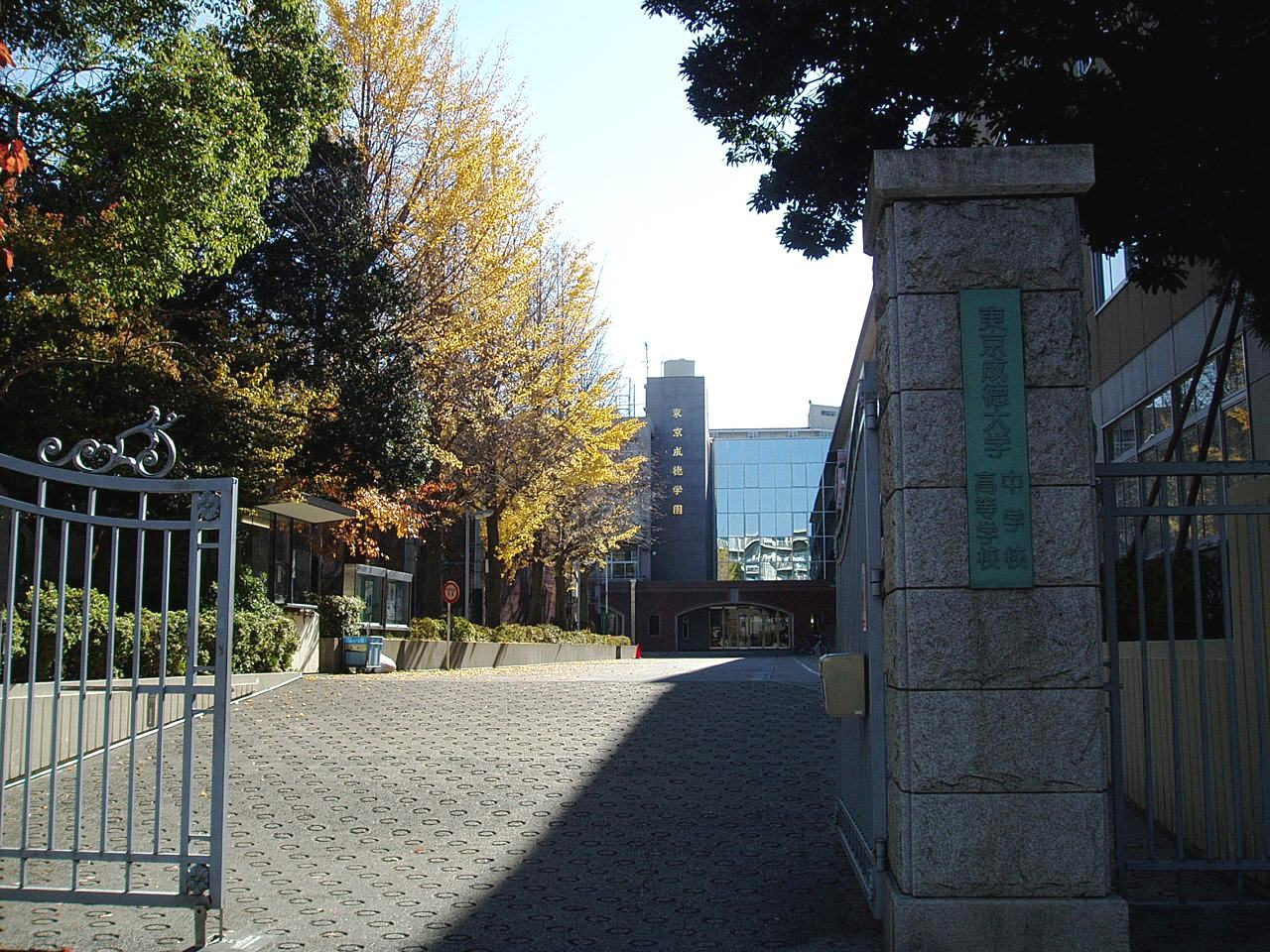 The main entrance to Tokyo Seitoku University Senior High School located in Kita, Tokyo, Japan.